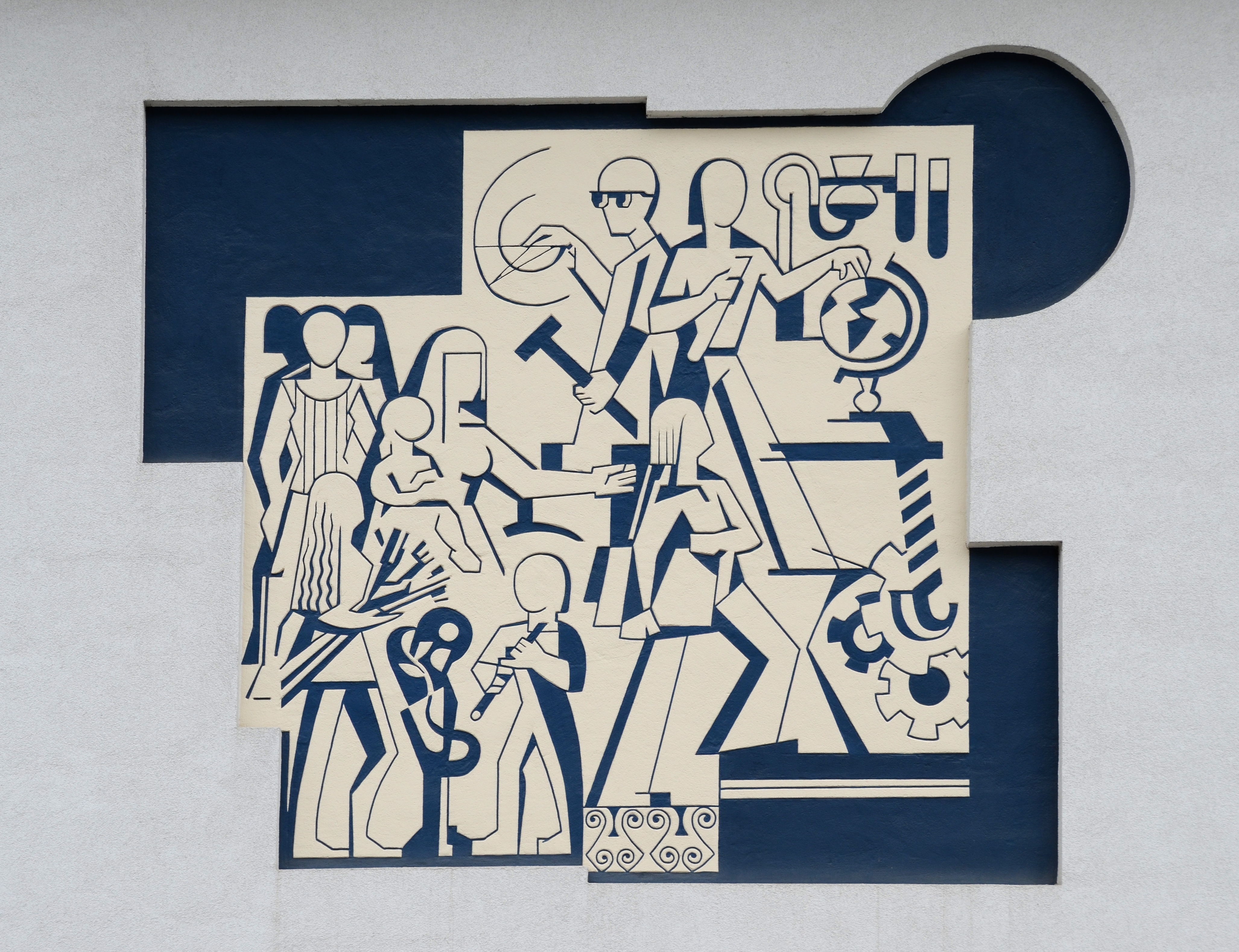 Sgraffito on the wall of the Hauptschule in Waldbach, Styria.